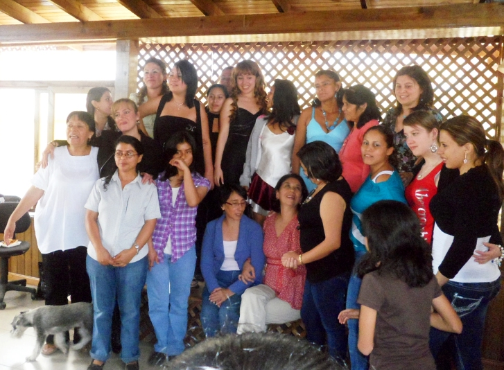 Norma Cruz surrounded by women looking for suport from Sobrevivientes. (2011)